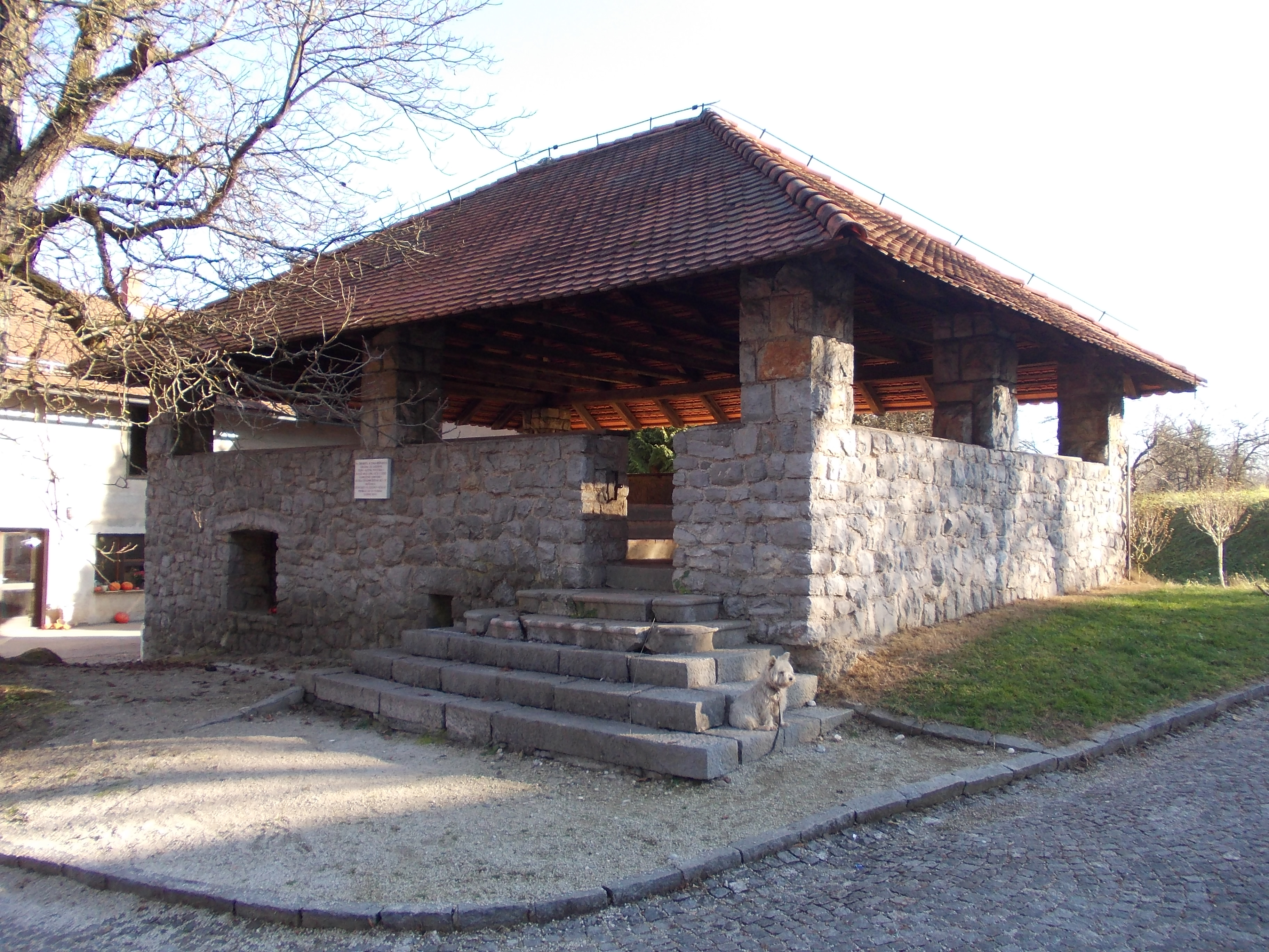 Sexton House, St. Ulrich's Hill